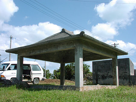 Kami-Asagi